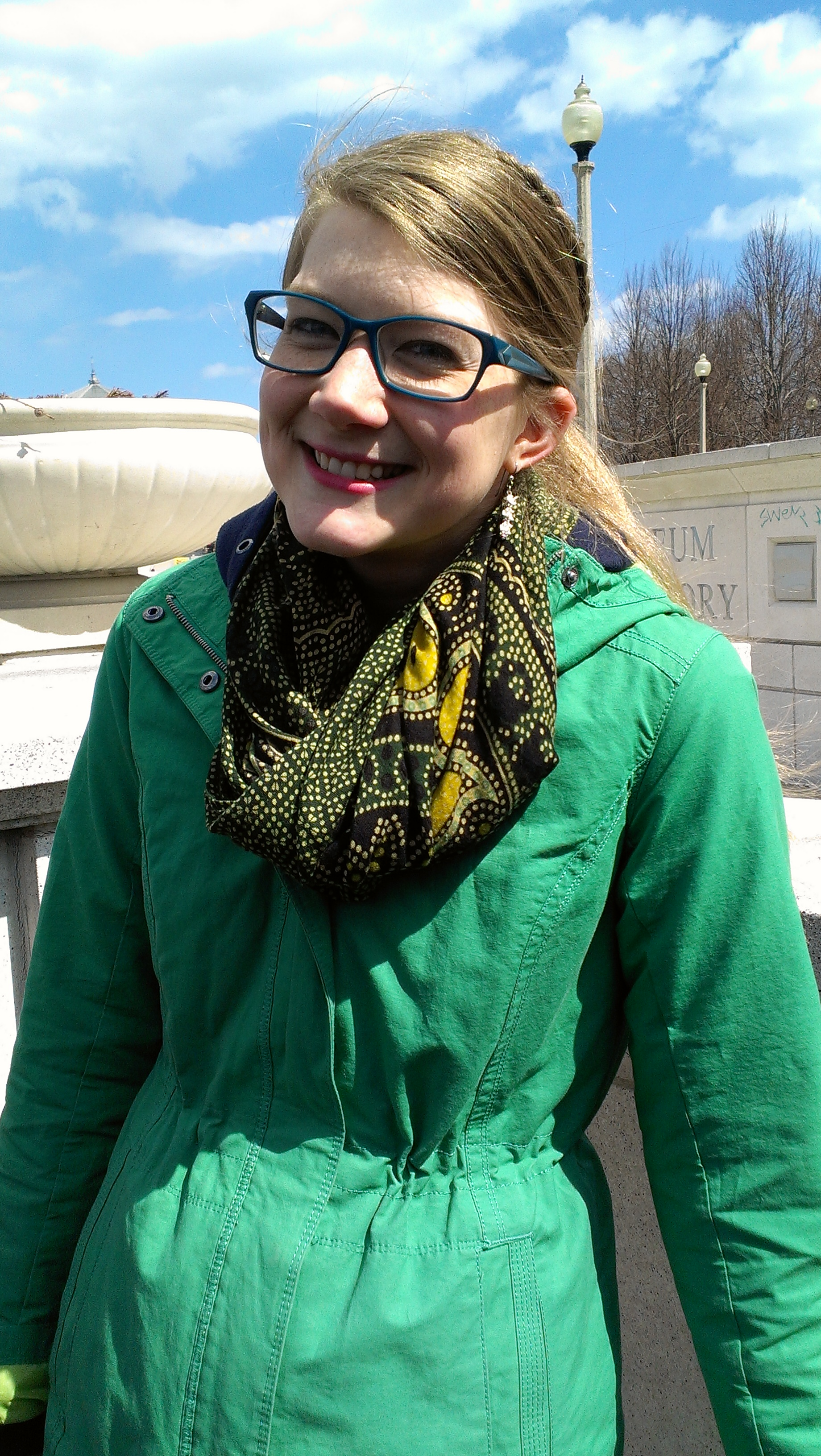 Emily Graslie, host of The Brain Scoop, in April 2013.